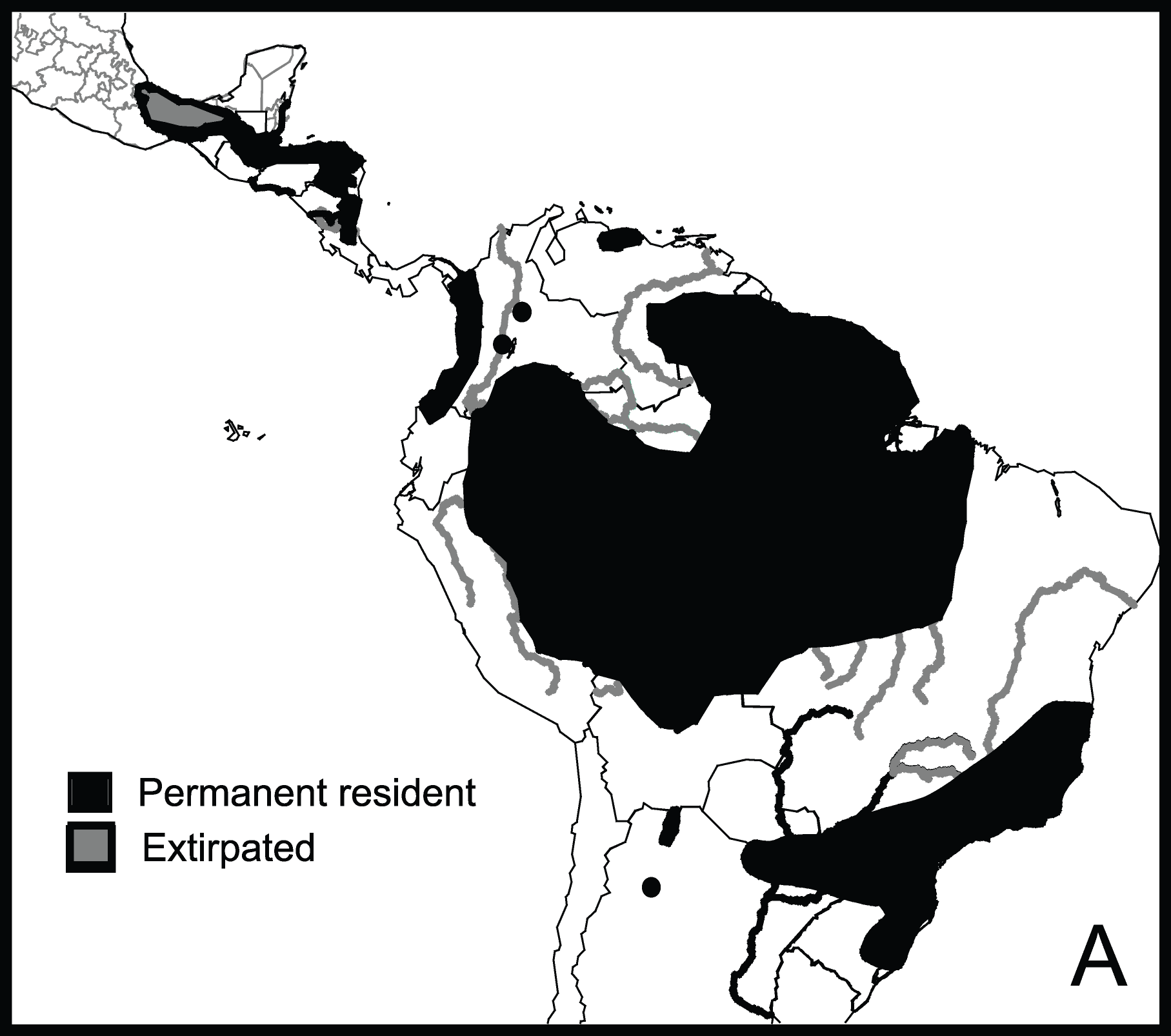 Harpy eagle (Harpia harpyja) geographic distribution.